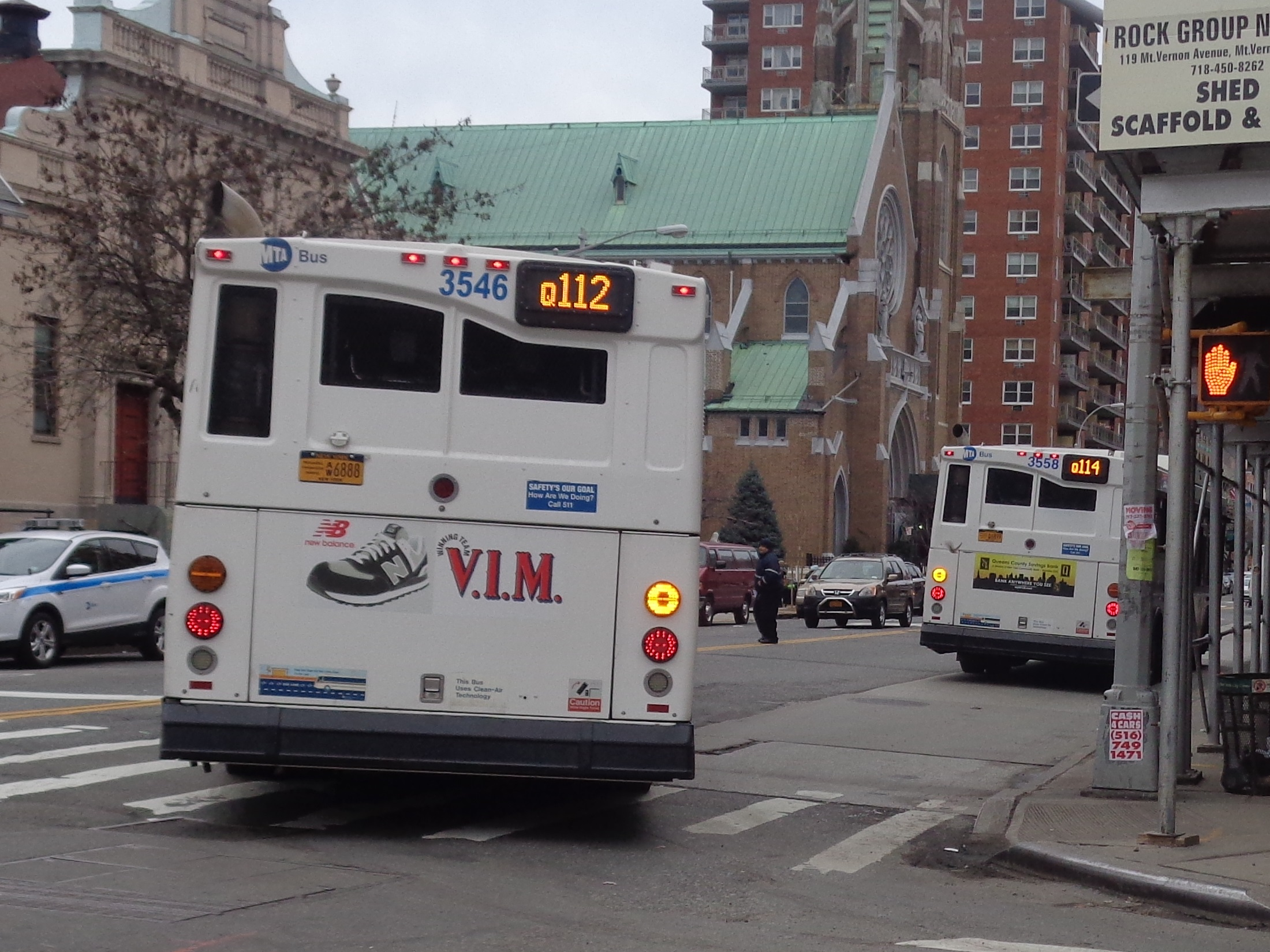 A Q112 bus (left) and Q114 bus (right) entering southbound service at Parsons Boulevard and 88th Avenue, one block south of Hillside Avenue, in Jamaica, Queens.